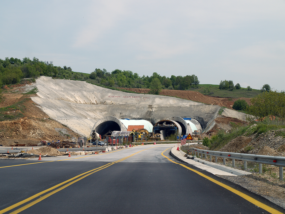 Construction of two-way tunnel on Road E-79 in Greece